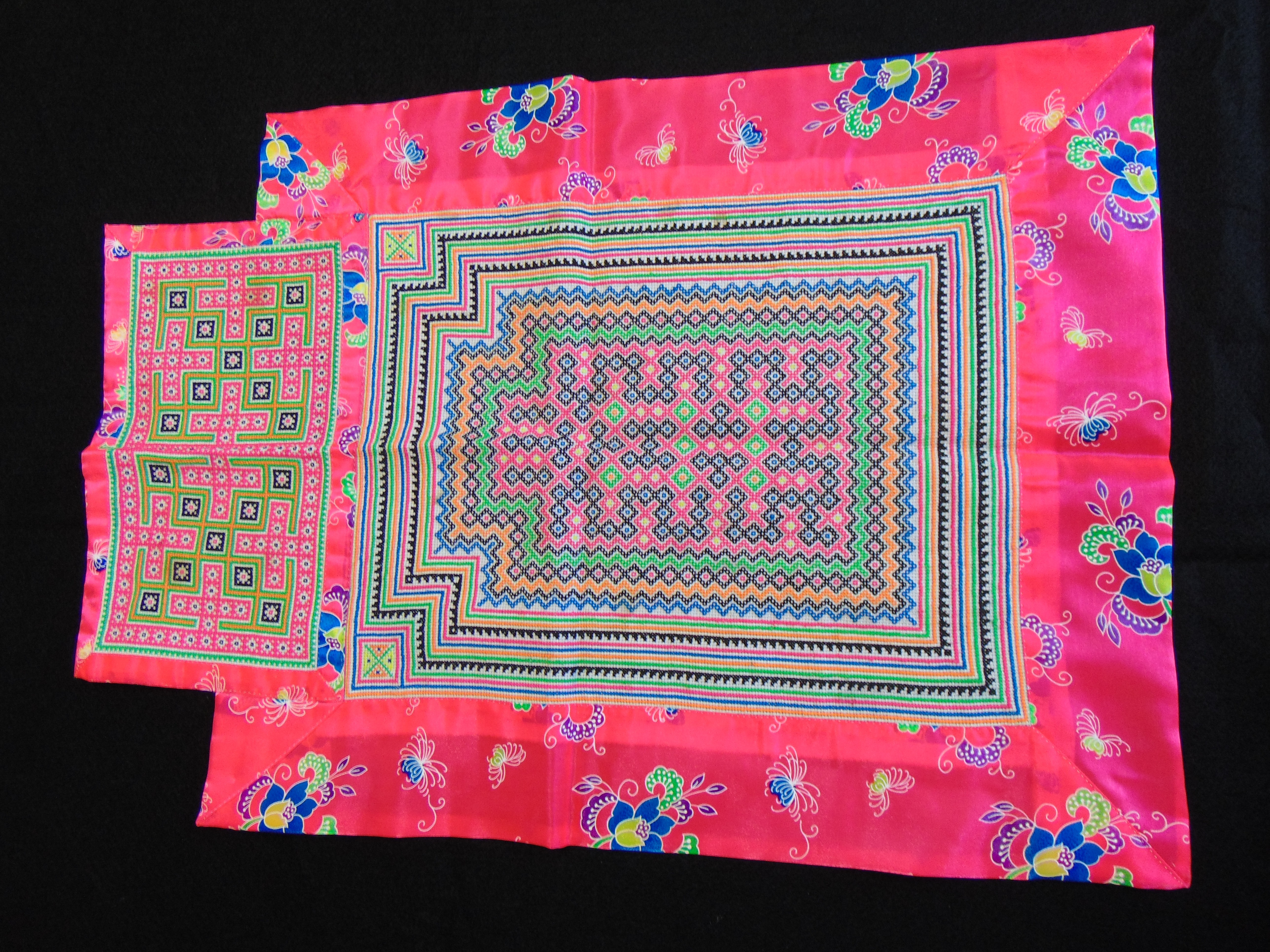 Colorful paj ntaub needlework flower cloth to carry babies called a nyias. This is an item that is traditionally given by a mother to her daughters as part of her dowry. This one is unfinished. It would have straps attached.